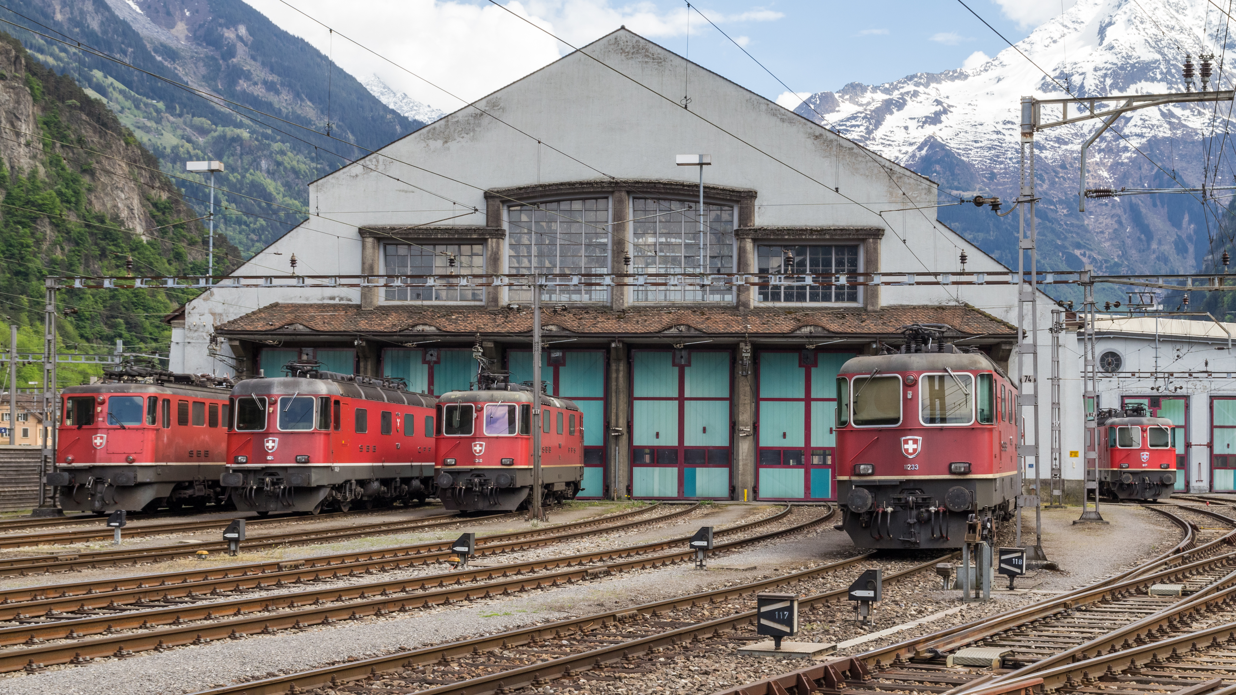 Locomotive hall in Erstfeld/Gotthard railway with some different SBB locomotives (Class Ae 6/6, Re 6/6, Re 4/4 II)